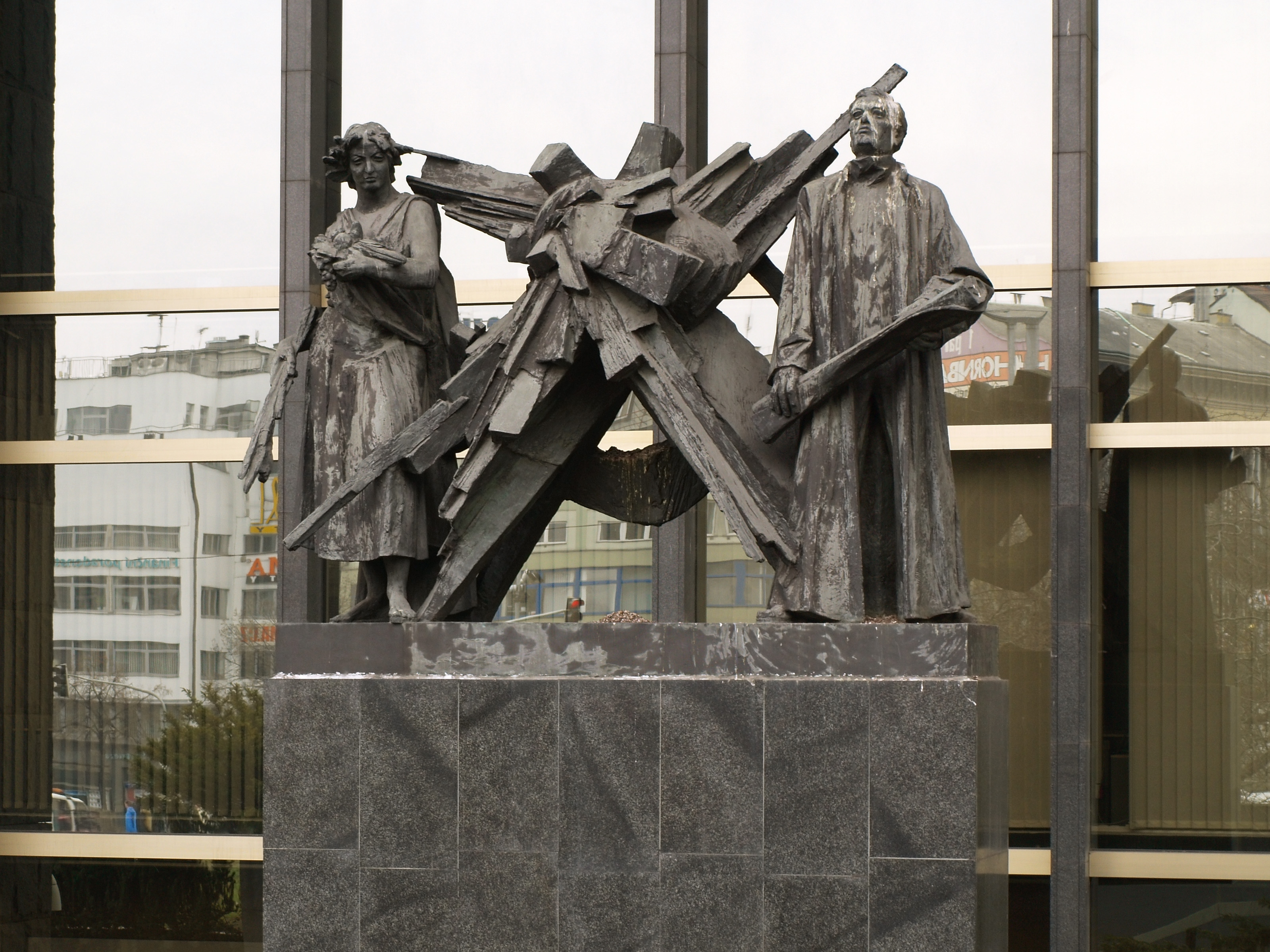 Replica of bronze sculptural group New Age by Czech sculptor Vincenc Makovský in Czech capital Prague; this original of the statue was made for Expo 58 and now is located in Czech city Brno.